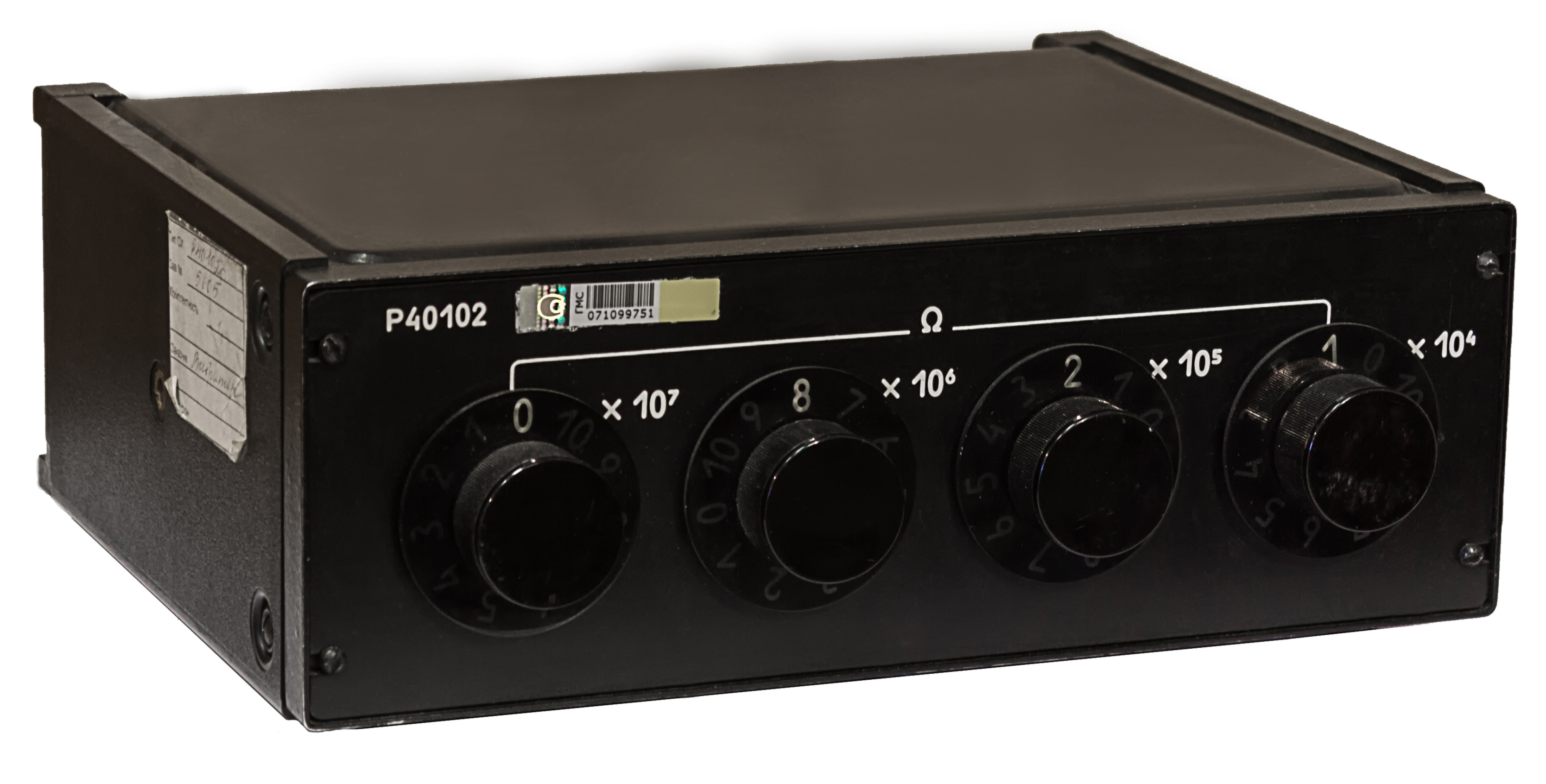 Resistance box. Type R40102 manufacturer: Microprovod, Kishinev, USSR (today: Micron S.A., Kishinev, Republic of Moldova), year of produce - 1989.